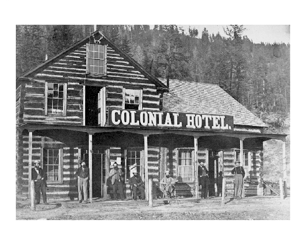 Photographer Unknown Photo taken 1868 Source BC Archives # A-03910